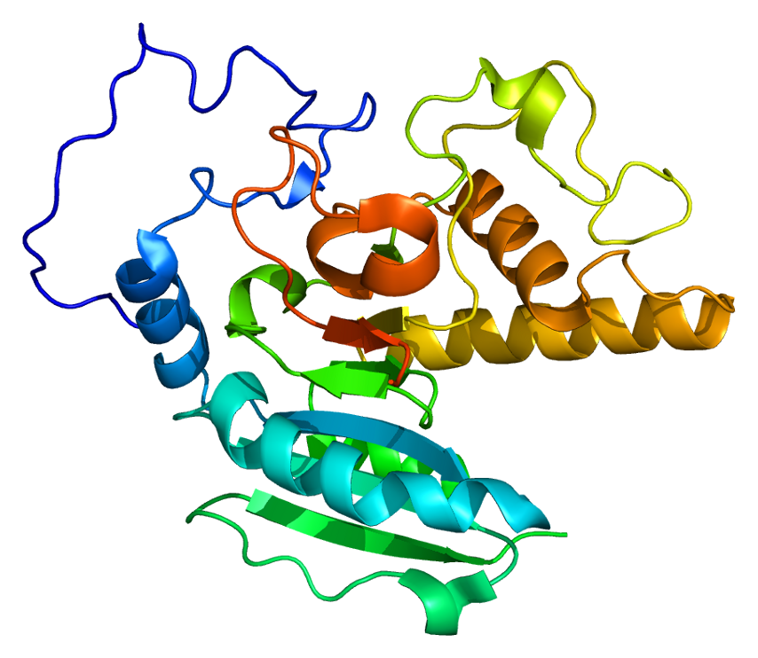 Structure of the ABO protein. Based on PyMOL rendering of PDB 1lz0.